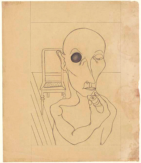 Man with Eye Removed